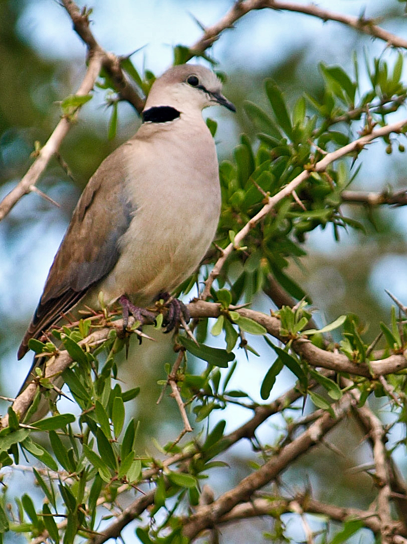 Ring-necked Dove at Masai Mara, Kenya